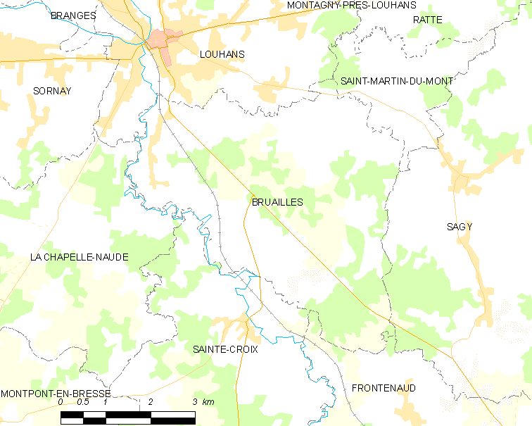 Map of French municipality